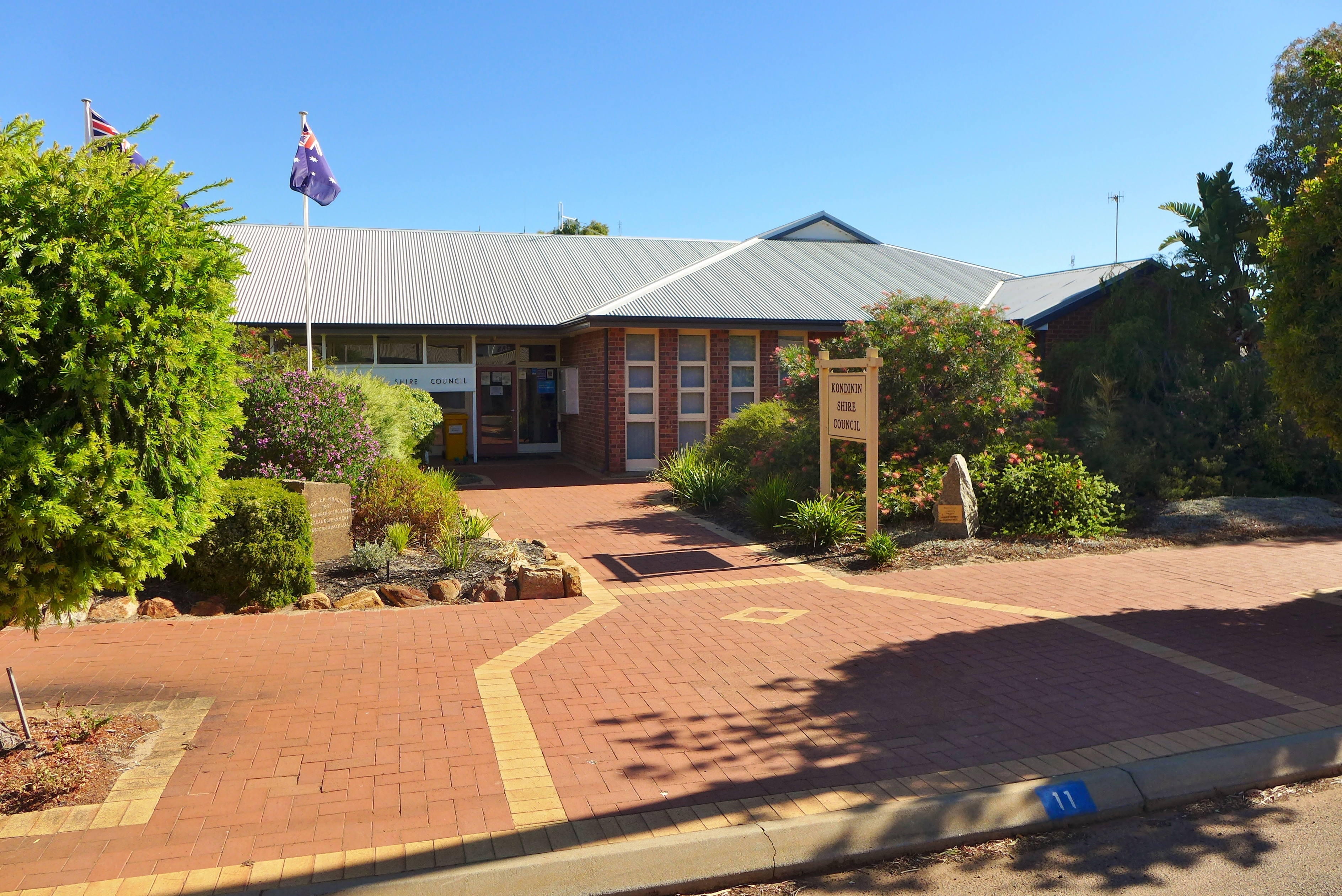 View of the Kondinin shire offices, 11 Gordon Street, Kondinin, Western Australia.